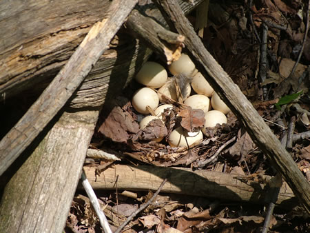 Ruffed Grouse eggs in Vermont